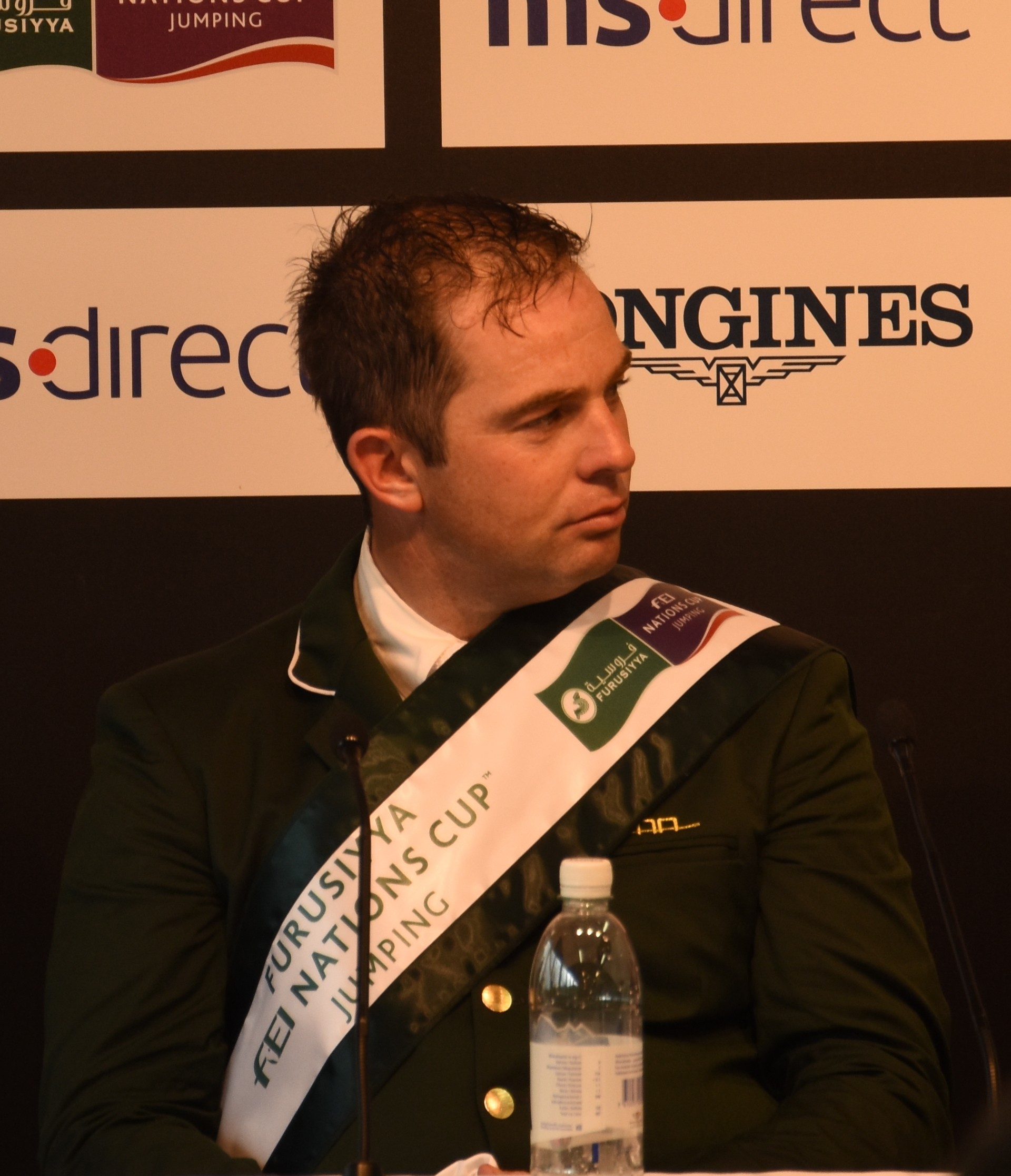 Cian O'Connor 2016 (Irish rider)